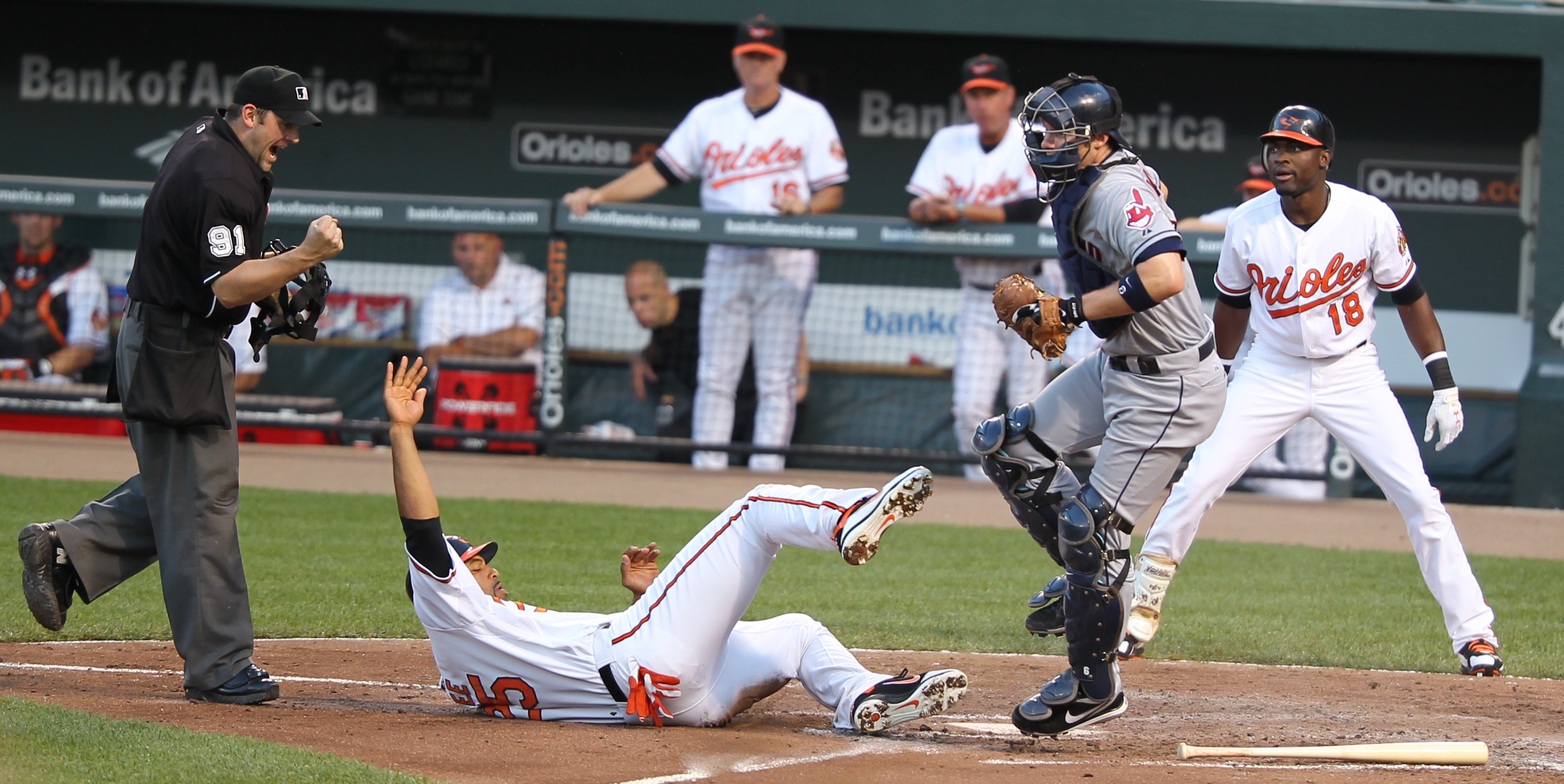 Home plate umpire Brian Knight #91 calls out Derrek Lee #25 of the Baltimore Orioles at home plate after catcher Lou Marson #6 of the Cleveland Indians tagged him out during the fourth inning at Oriole Park at Camden Yards on July 16, 2011 in Baltimore, Maryland.